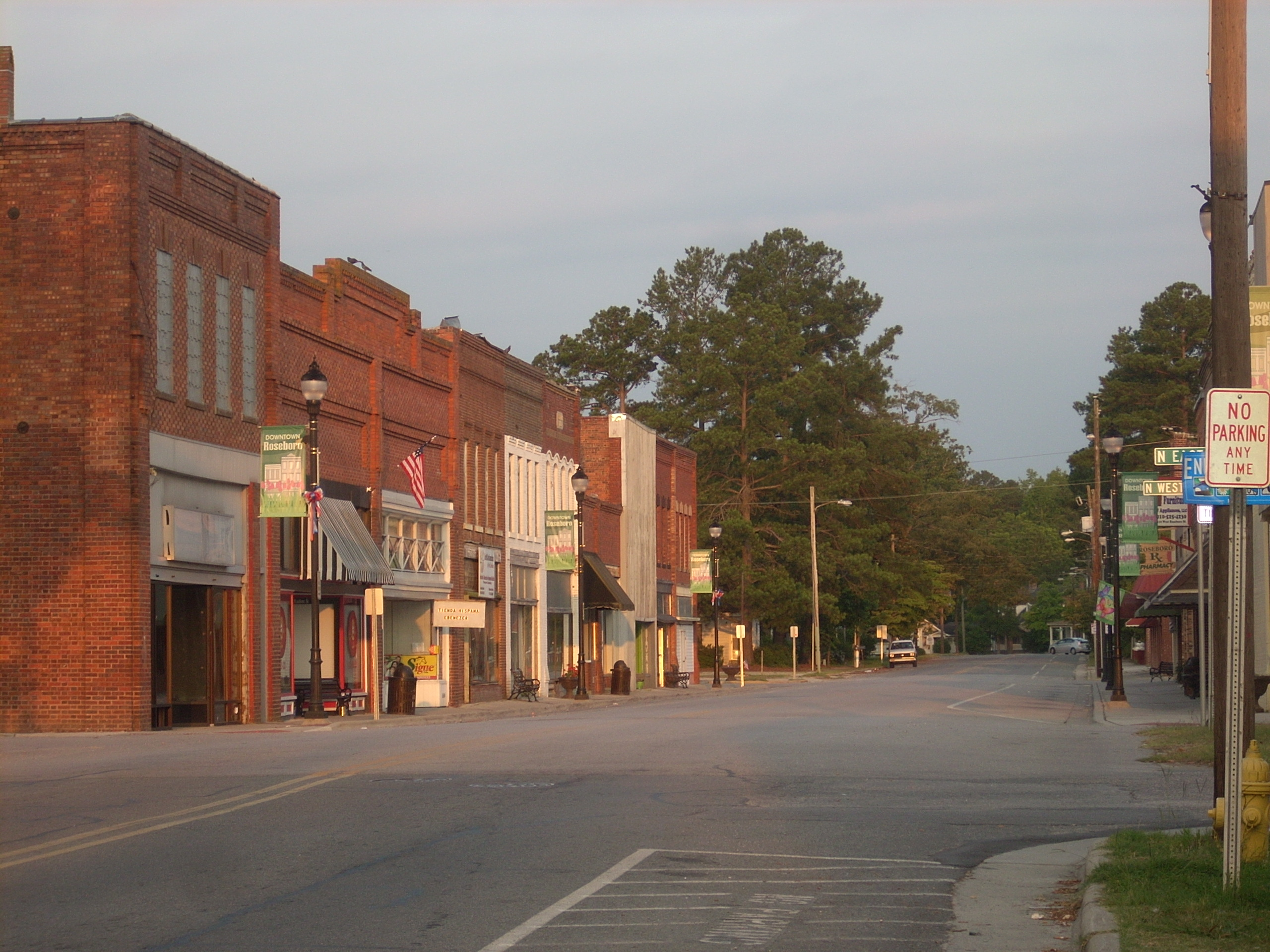 West Roseboro Street, North Carolina Highway 242 in Roseboro, Sampson County, North Carolina